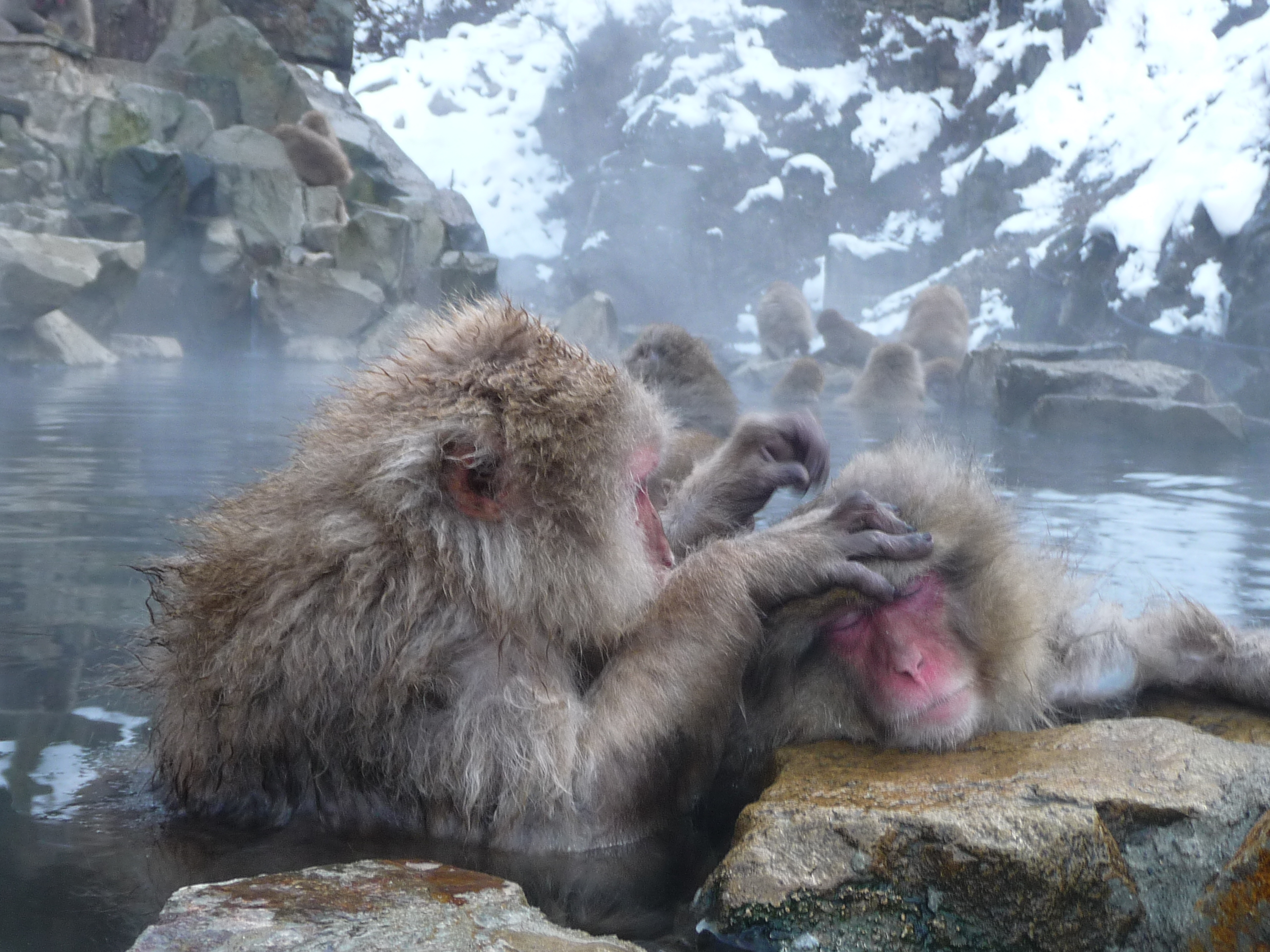 Japanese Macaques enjoying leisure time in a volcanic hot spring in Nagano prefecture, Japan